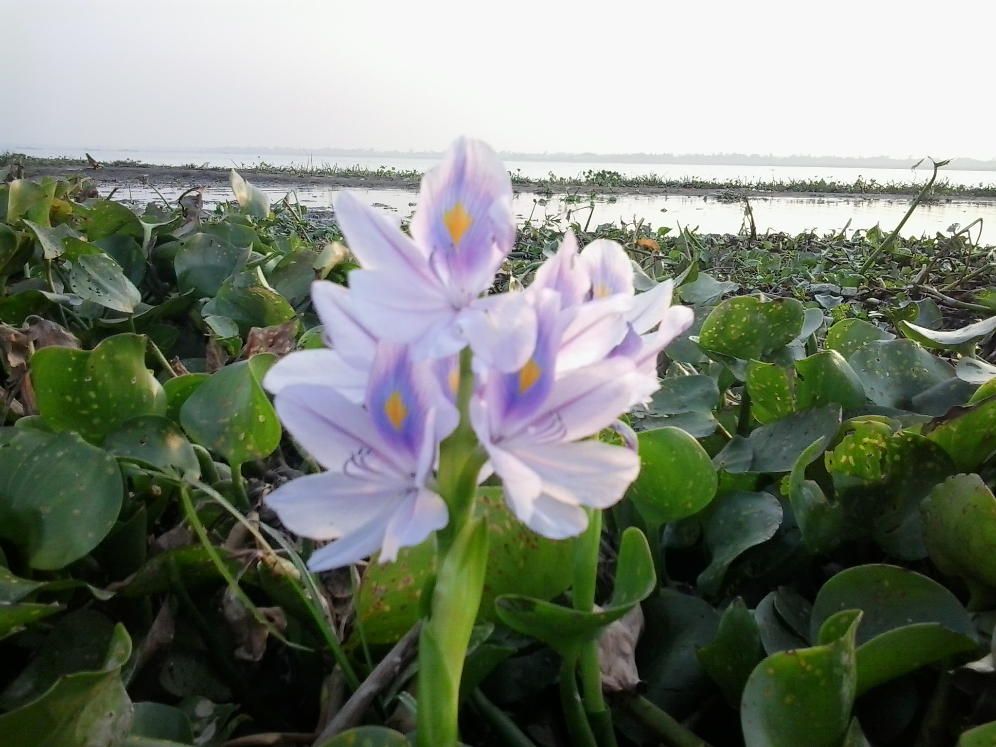 Beatutiful bangladesh